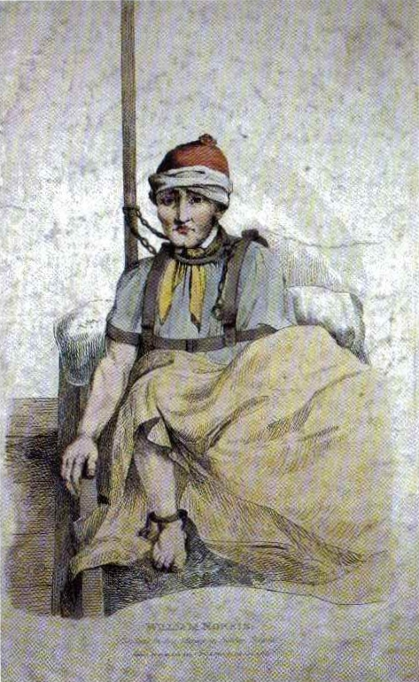 A coloured etching of James Norris by G. Arnald 1815. Pictorial description of James Norris's restraining apparatus in Bethlem. Norris, an American marine who had been a patient in Bethlem since 1800, was mistakenly referred to as William in the British press and in many places long thereafter.